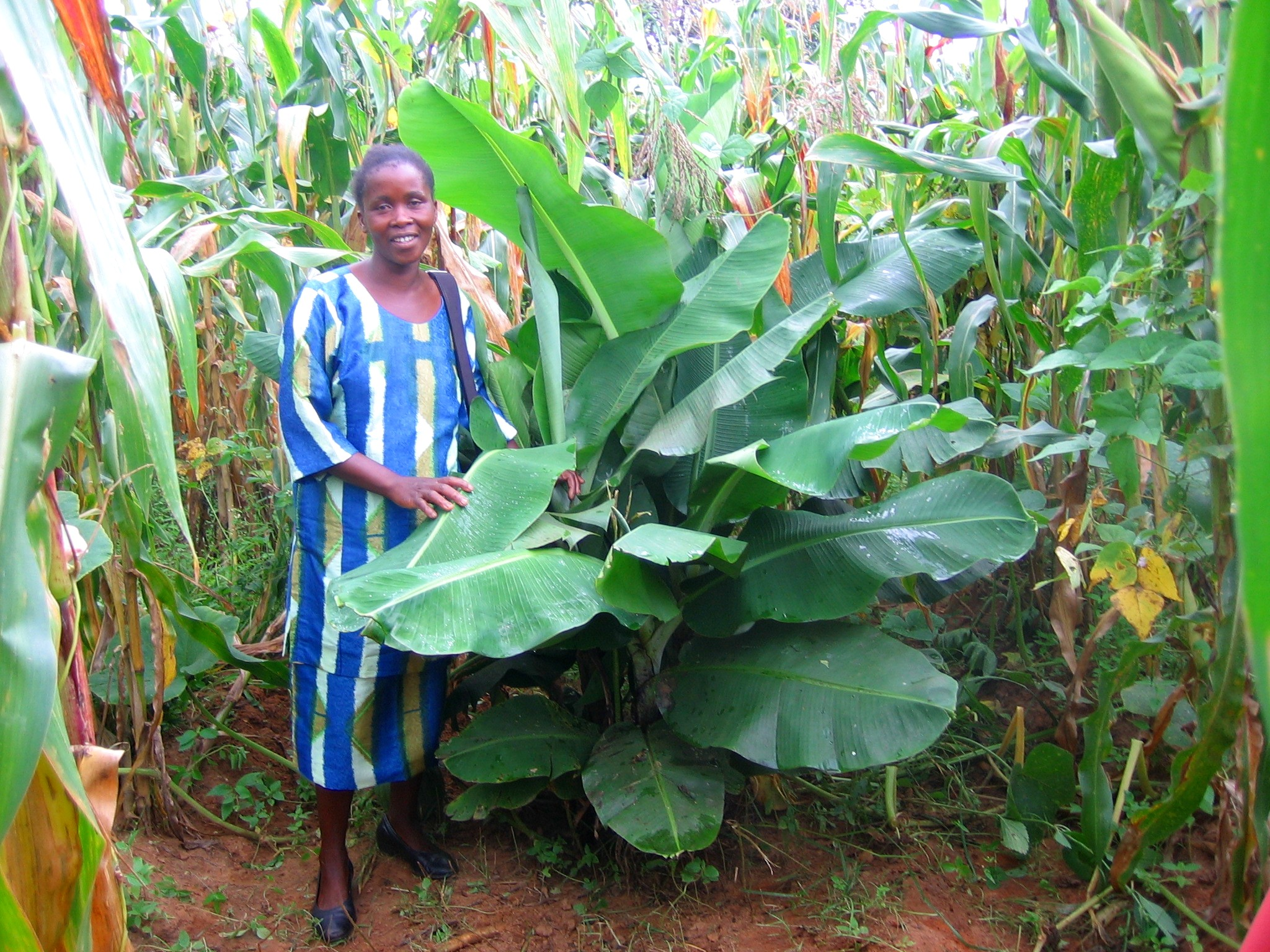 Banana growing on Arborloo pit. Photo by: Peter Morgan in March 2006, Ekwendeni-Malawi